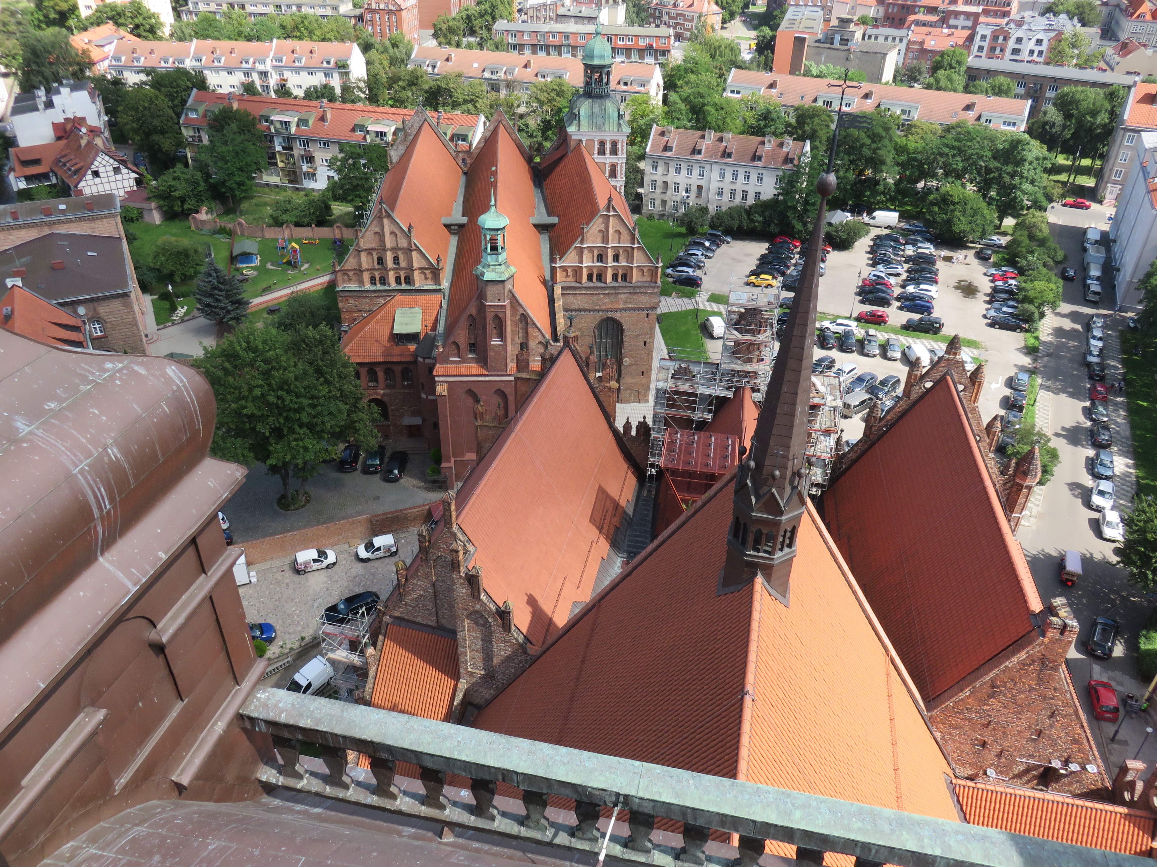 View from the tower of the St. Catherine's Church to the St. Bridget's Church. On the roof of the St. Catherine's Church the antennas of the Pulsar clock of the church.